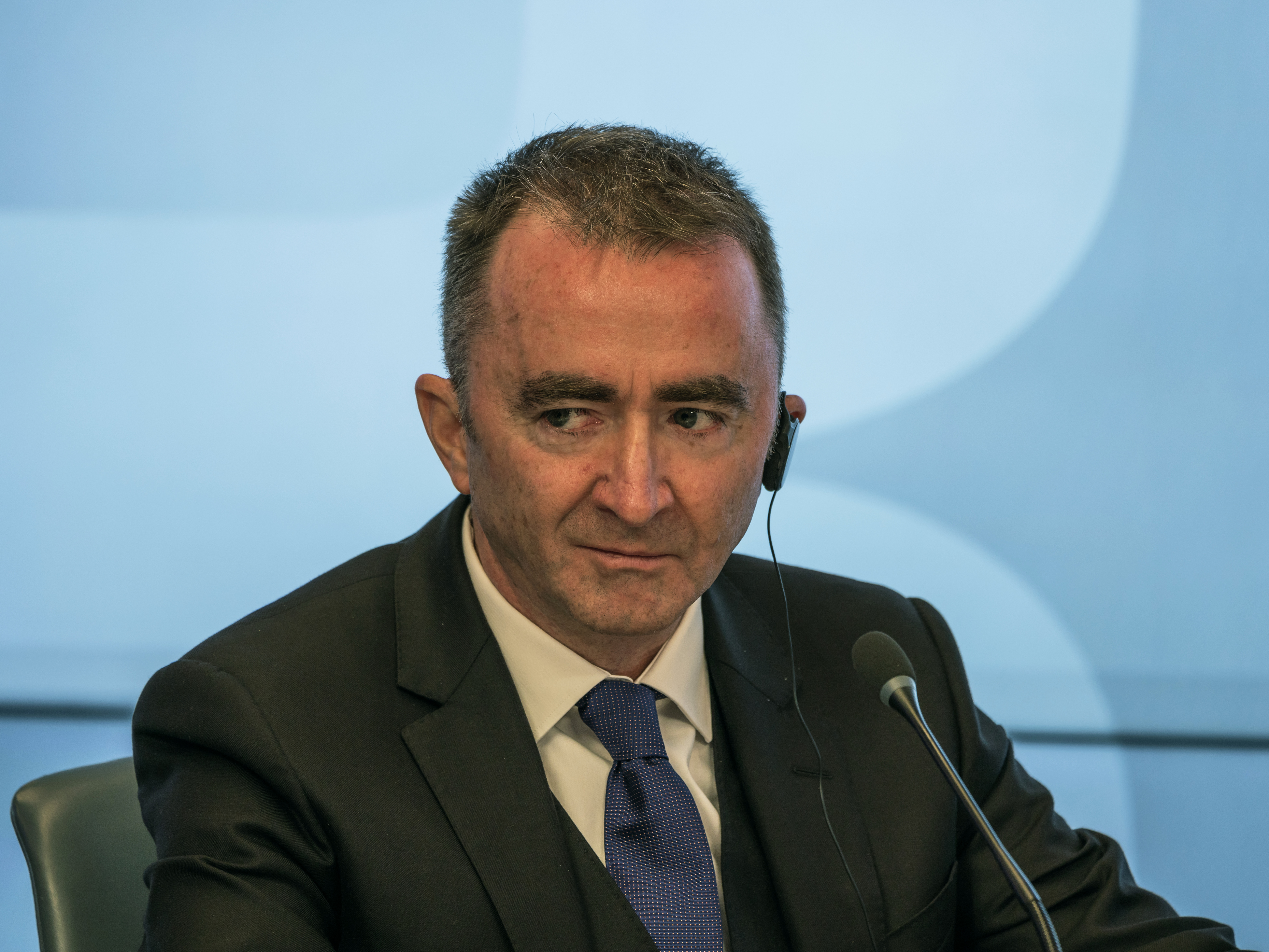 Paddy Lowe (b. 1962) is a British motor racing engineer, Chief Technical Officer at Williams Martini Racing. Photo taken at RT press center, Moscow.